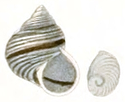 Drawing of shell Tropidophora fimbriata, syn. Cyclophorus fimriatum.